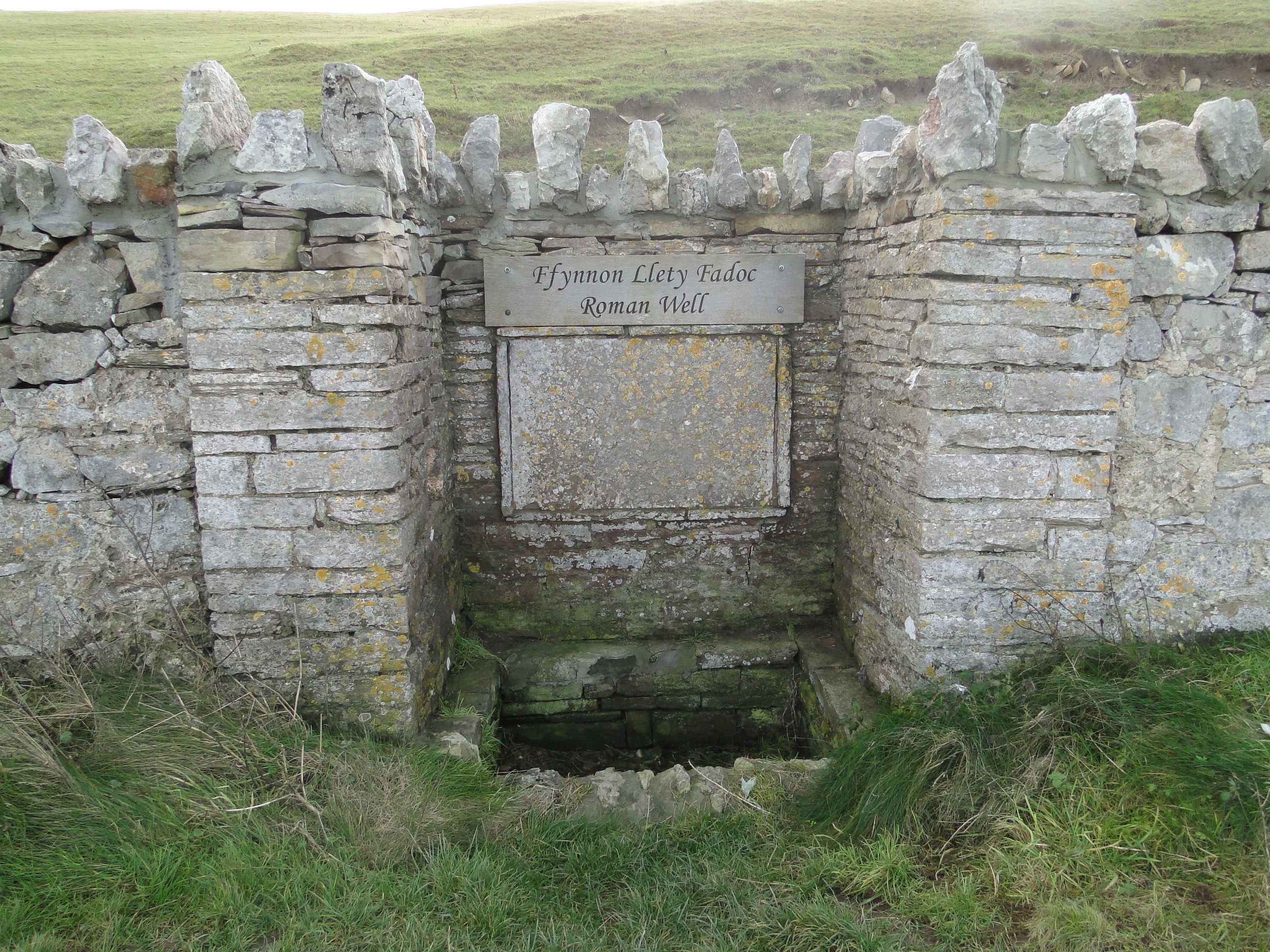 Ffynnon Llety Fadog: one of the historic wells on the Great Orme, Llandudno